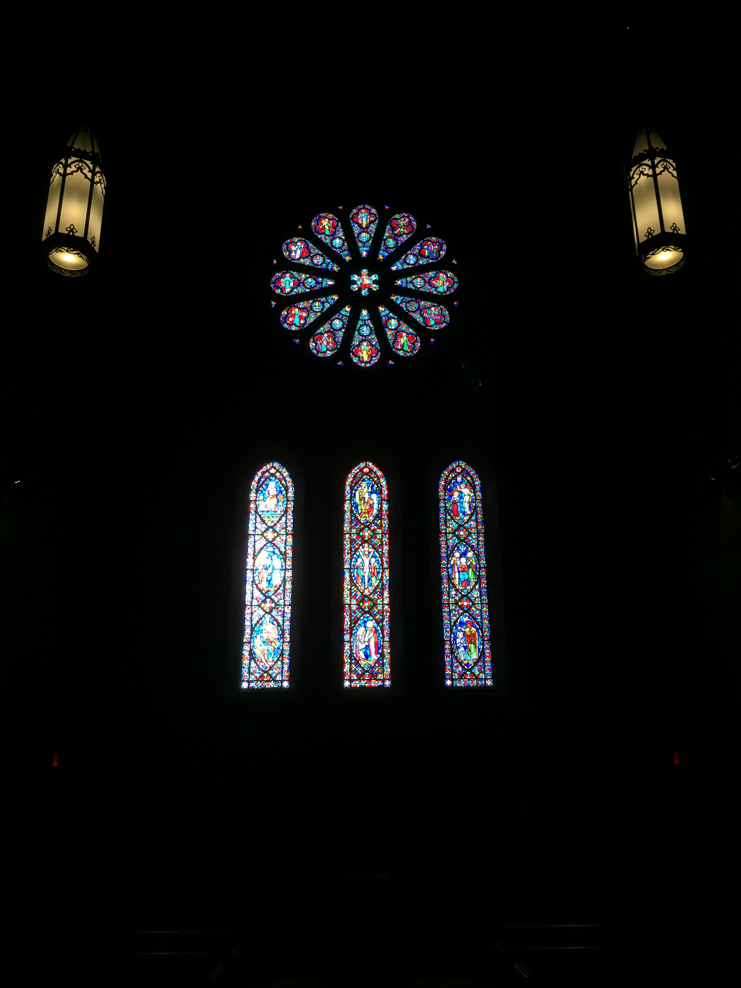 I User:Gateman1997 am the producer of this image